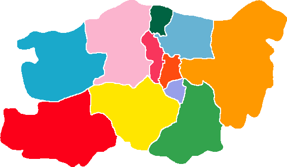 Subdivision of Zhengzhou